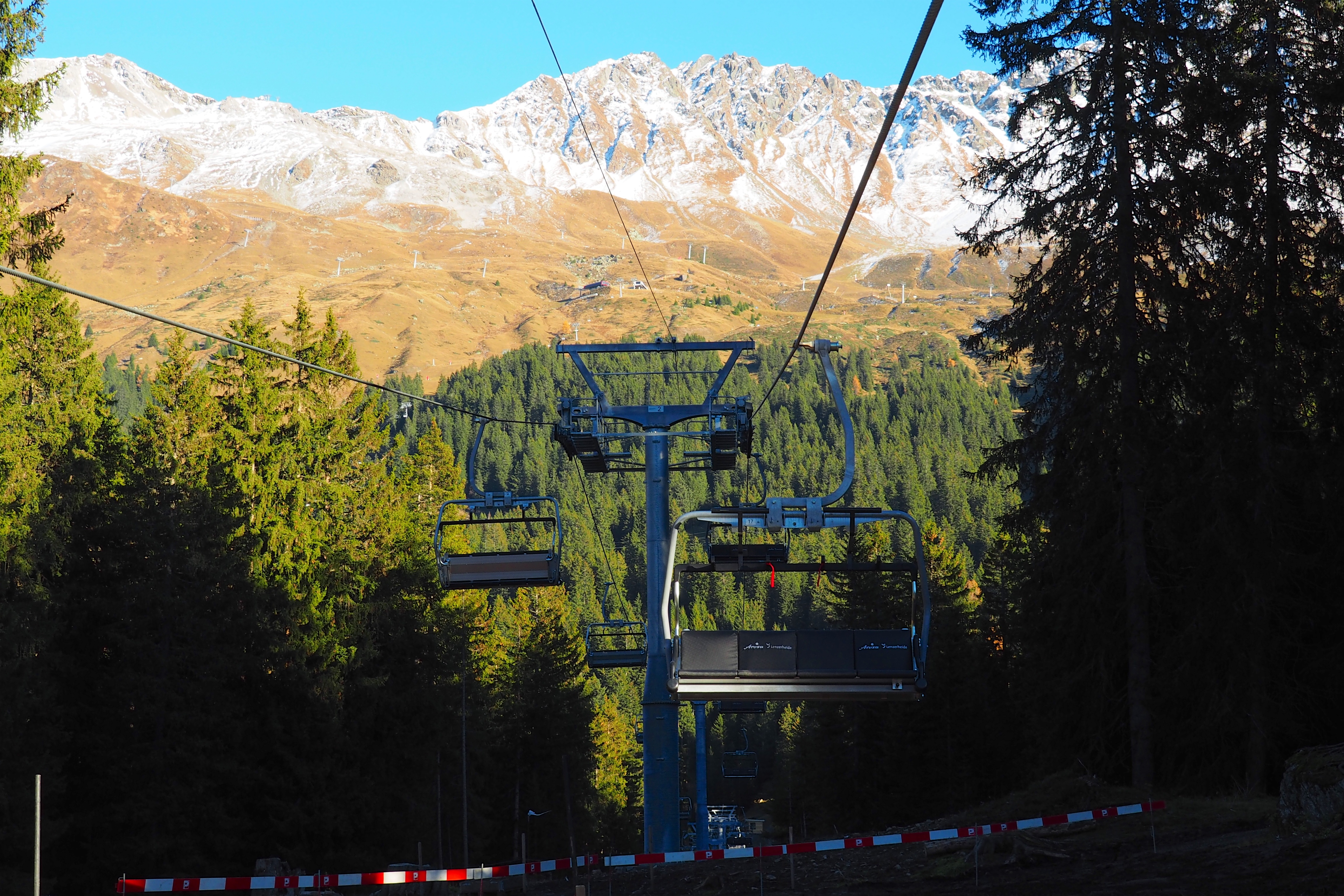 Chairlift Obertor at Parpan/Switzerland (skiing area Arosa Lenzerheide)